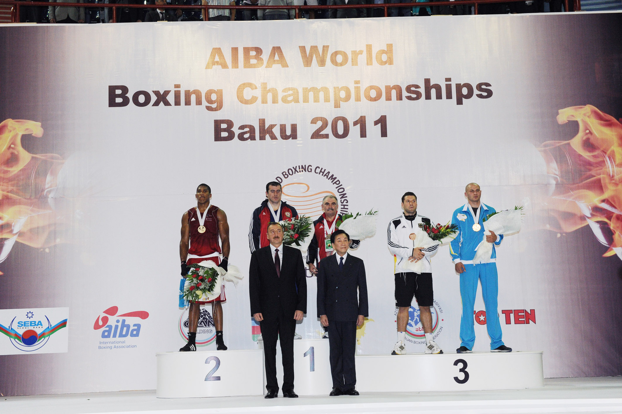 Final bouts of the 16th world boxing championship